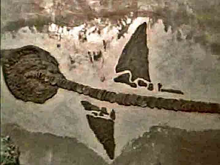 Fossilized vertebrae and pectoral fins of a Squalicorax shark, from Kansas, abt. 70 - 80 mya, at the Smithsonian Institution, Washington